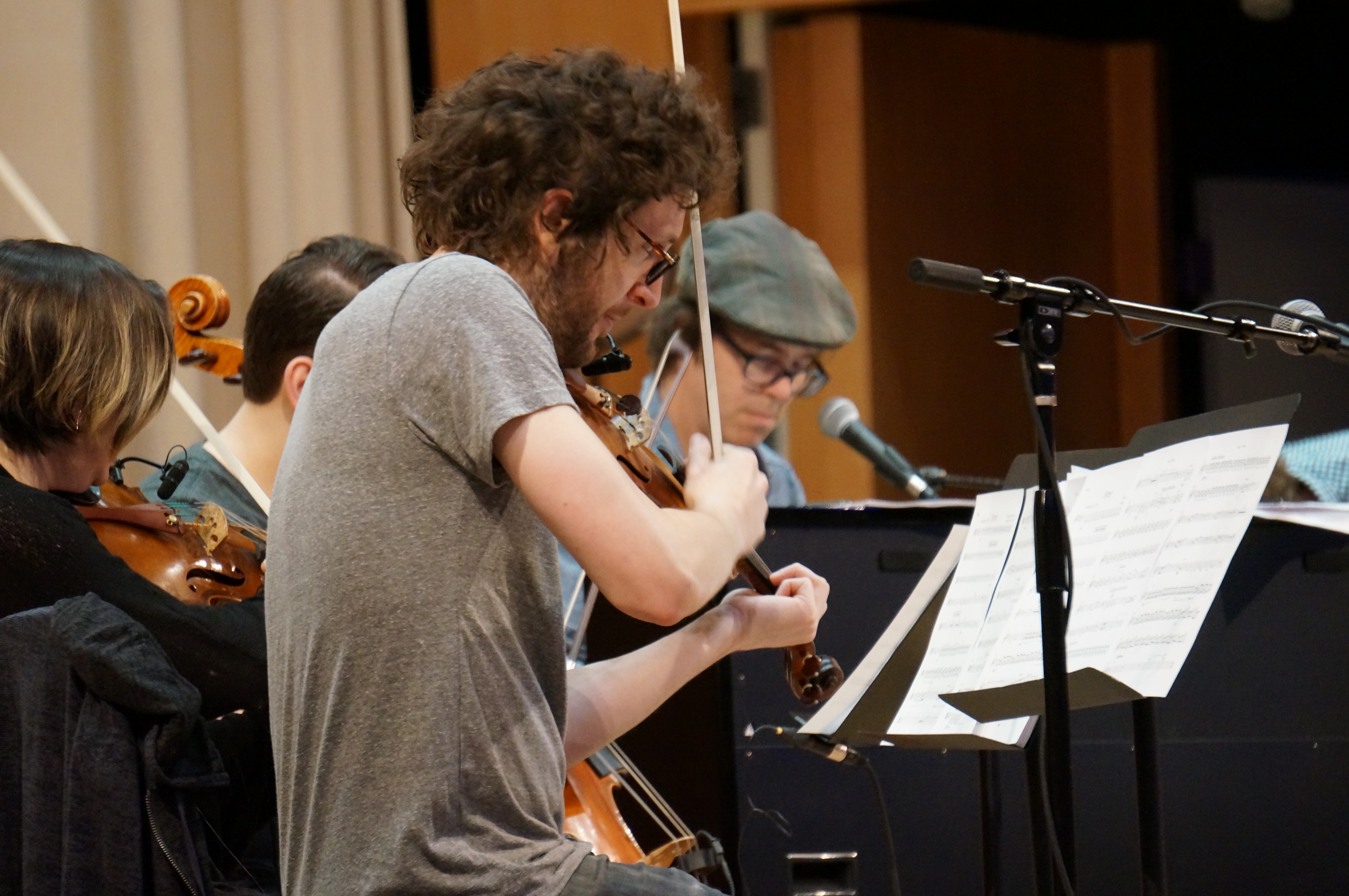 Ben Folds and yMusic read song arrangements by Duke University composition graduate students